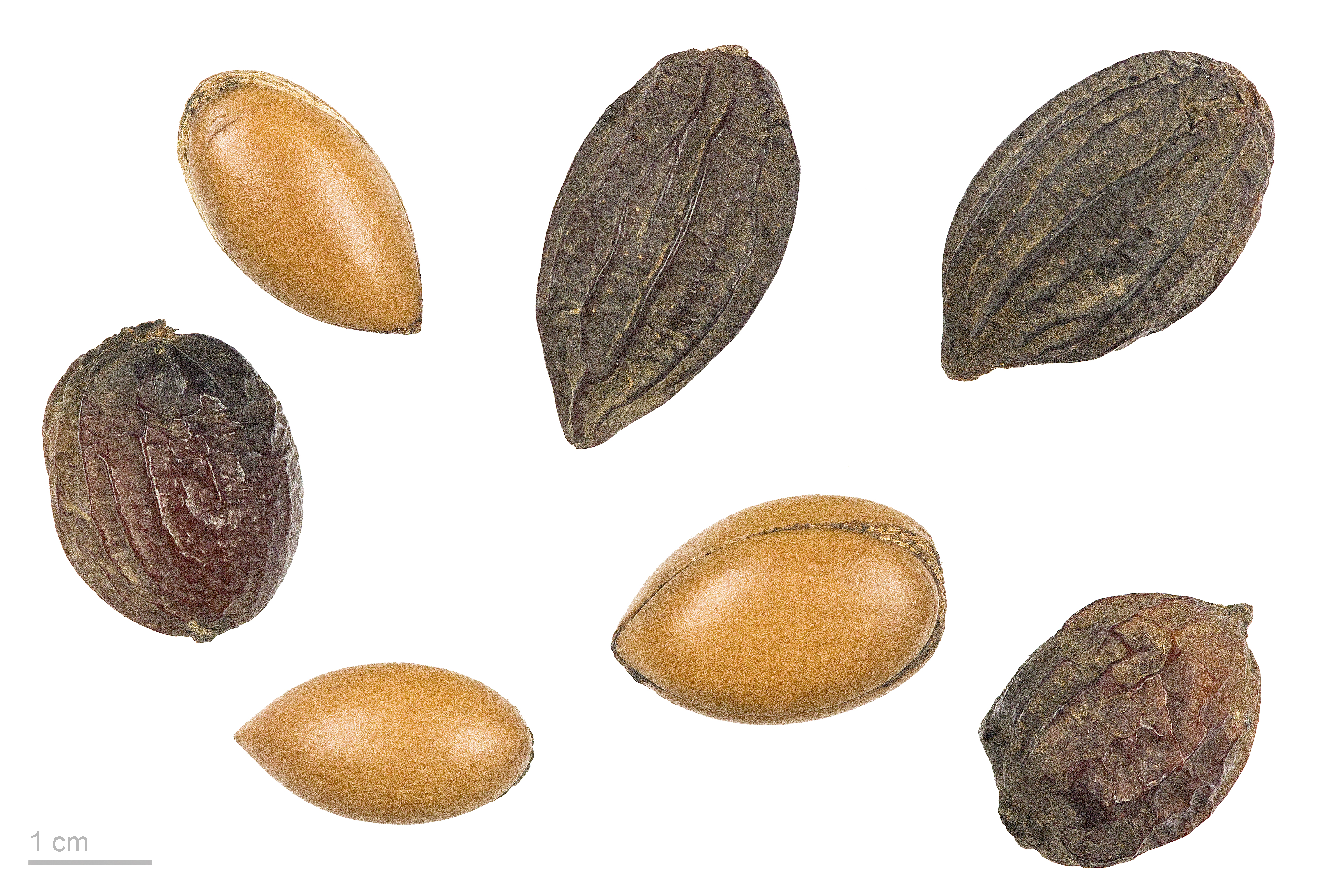 Argan , fruits and seeds